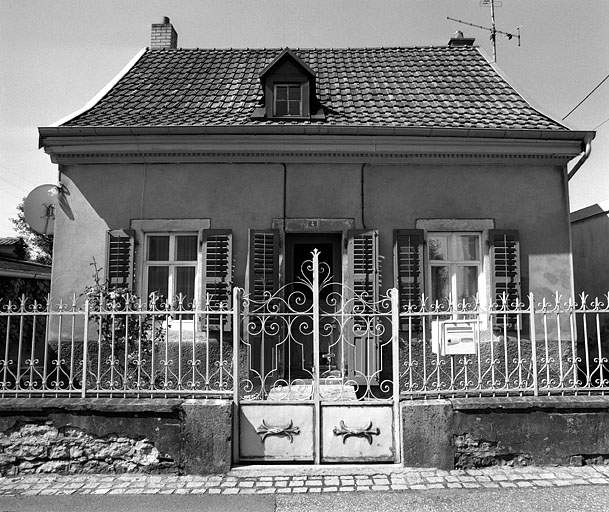 Workers house - Beaucourt